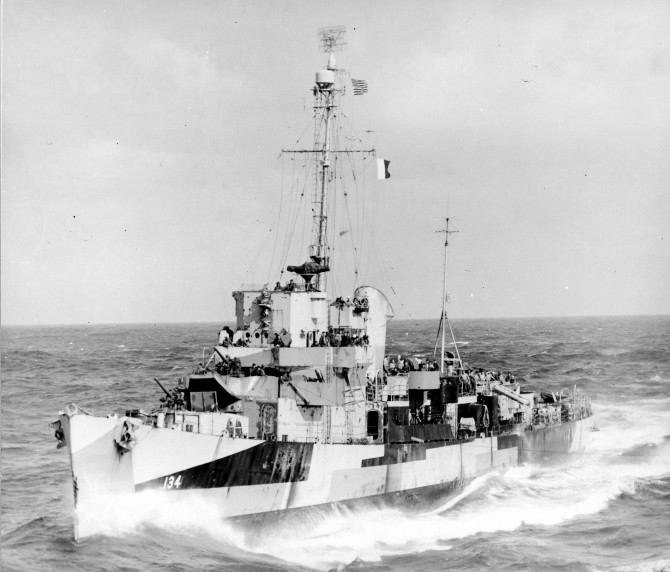 The U.S. Navy destroyer escort USS Pope (DE-134) underway on 17 October 1944, as seen from the escort carrier USS Guadalcanal (CVE-60). She is wearing Camouflage Measure 32, Design 3D modified.